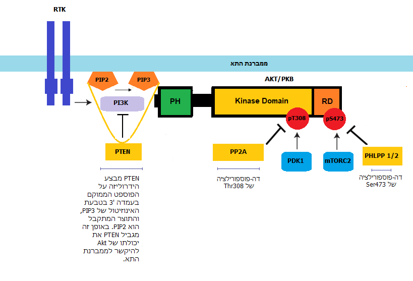 Description of the activation mechanism of PI3K/AKT signalling pathway.